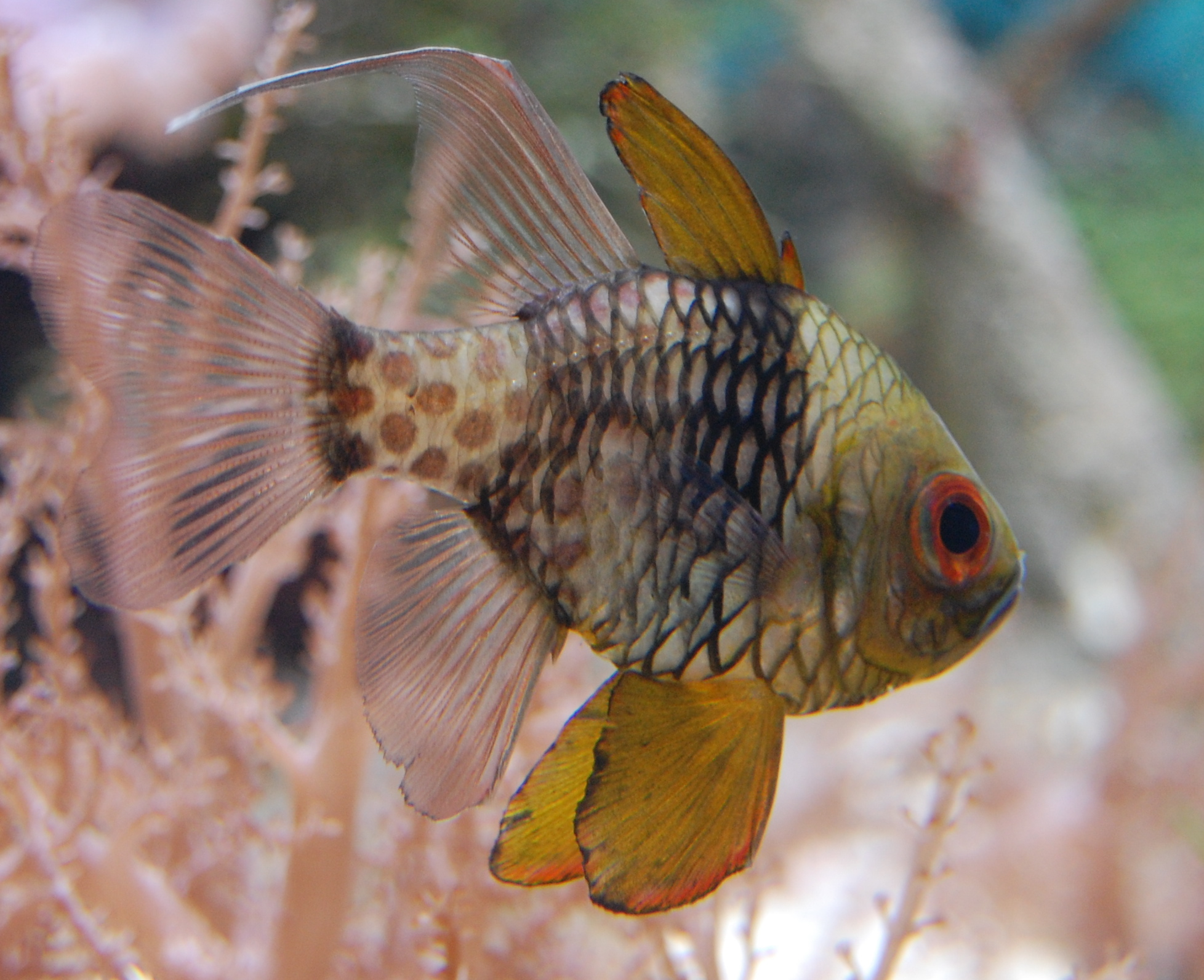 Pajama cardinalfish (Sphaeramia nematoptera) at the New England Aquarium, Boston MA.